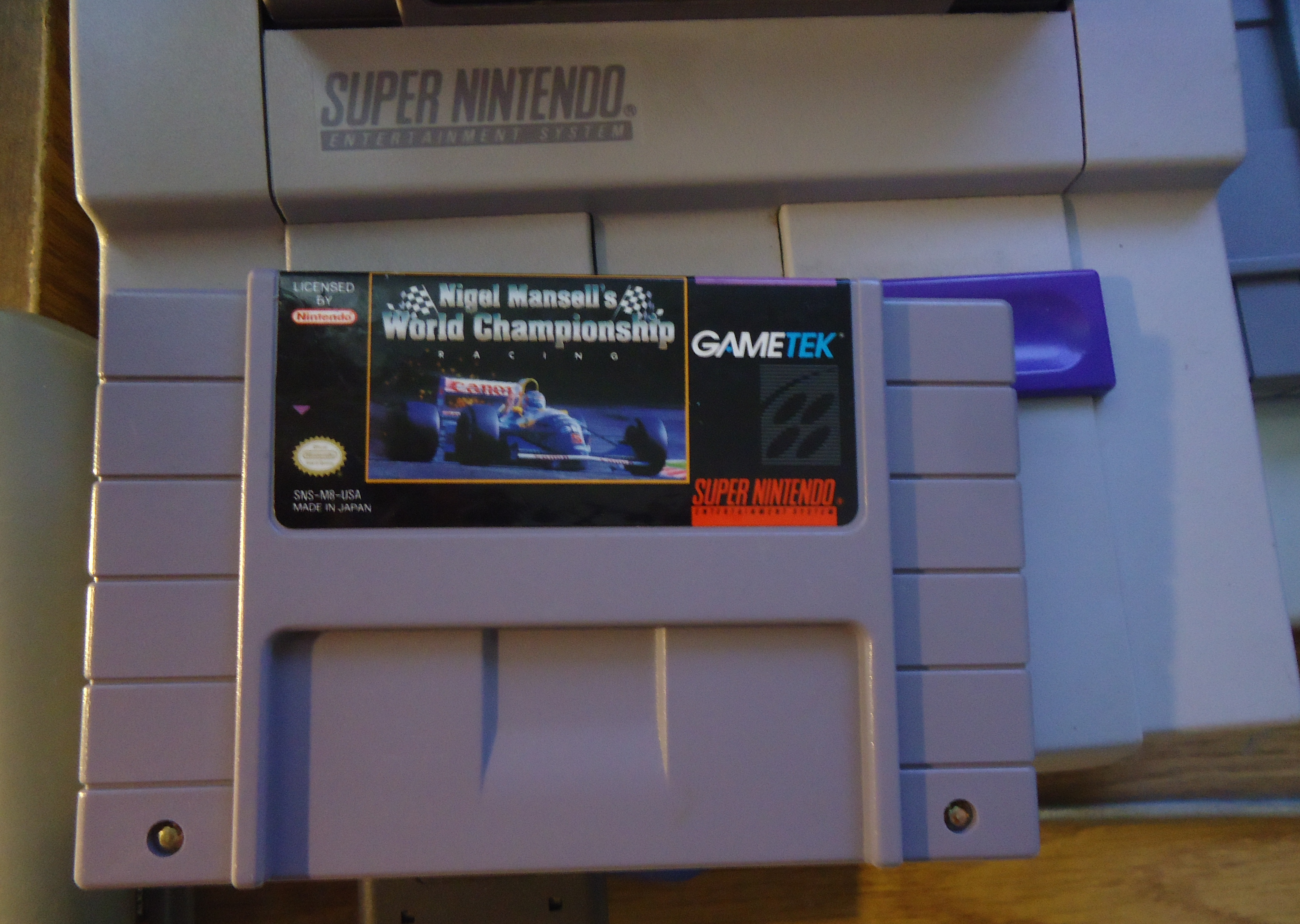 Picture of a SNES cartridge containing the game Nigel Mansell's World Championship Racing.